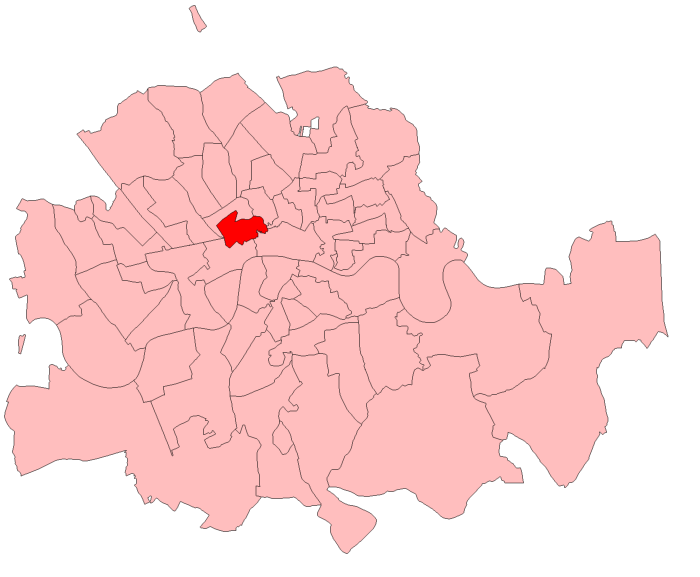 A map of Finsbury Holborn constituency within the Metropolitan Board of Works area, as it existed from 1885 to 1918.